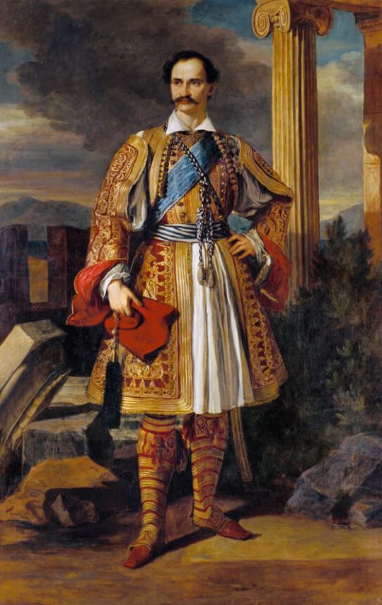 King Otto of Greece wearing the Greek national costume